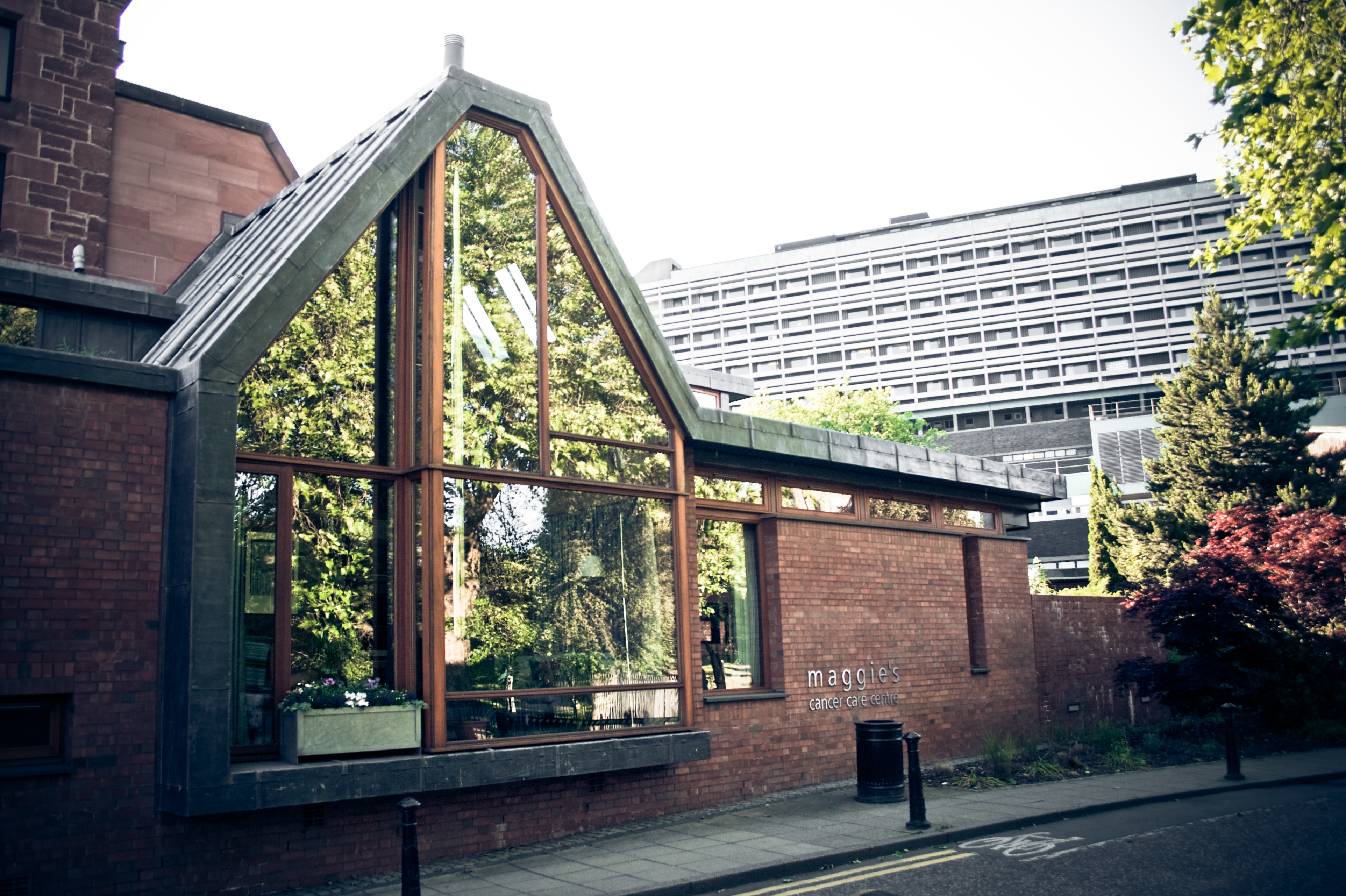 Maggie's Care Centre, Glasgow, Scotland